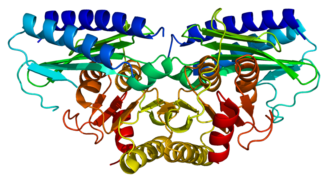 Structure of the IMPA2 protein. Based on PyMOL rendering of PDB 2czh.